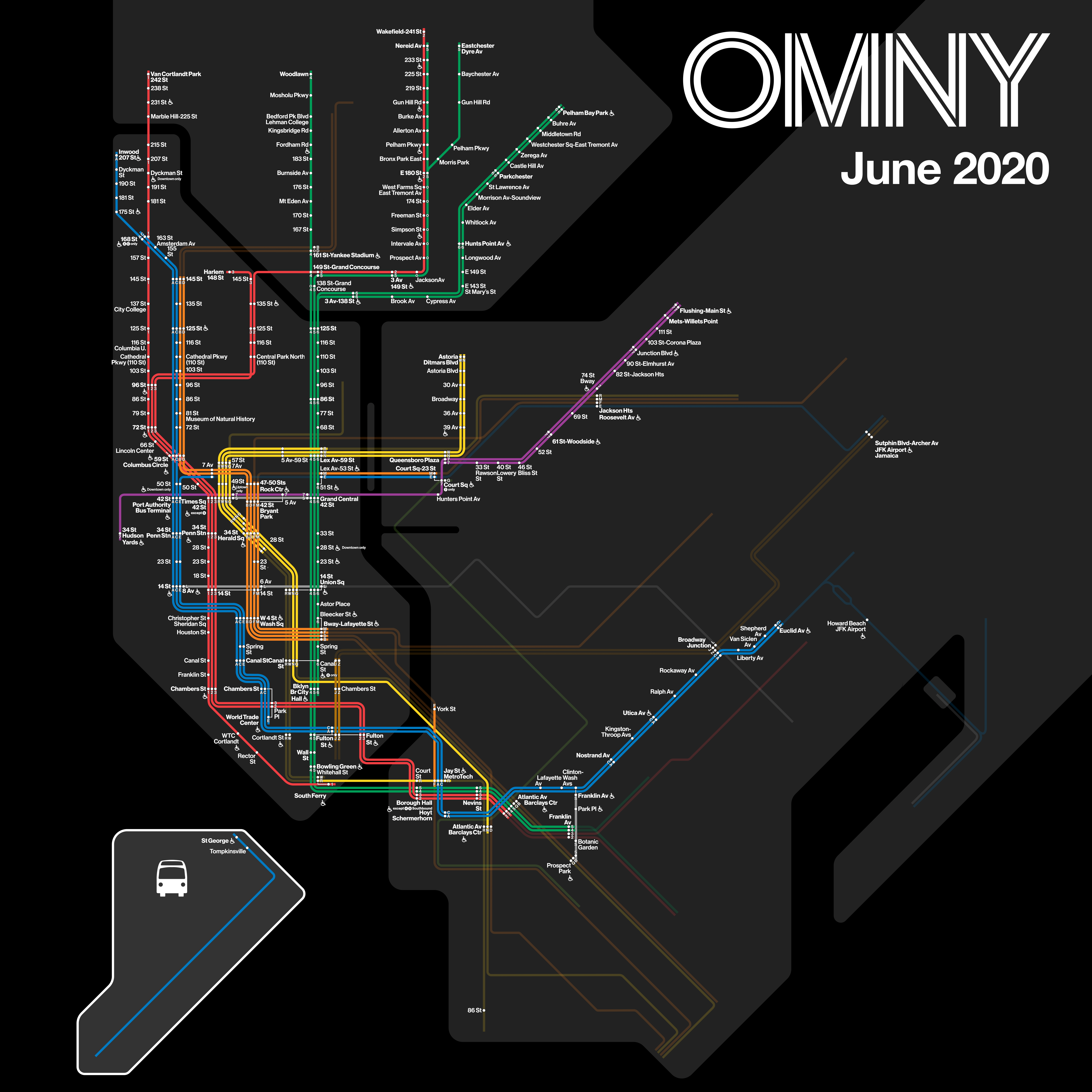 Map of stations equipped with OMNY readers in June 2020 (including nine stations to be activated after June 4).